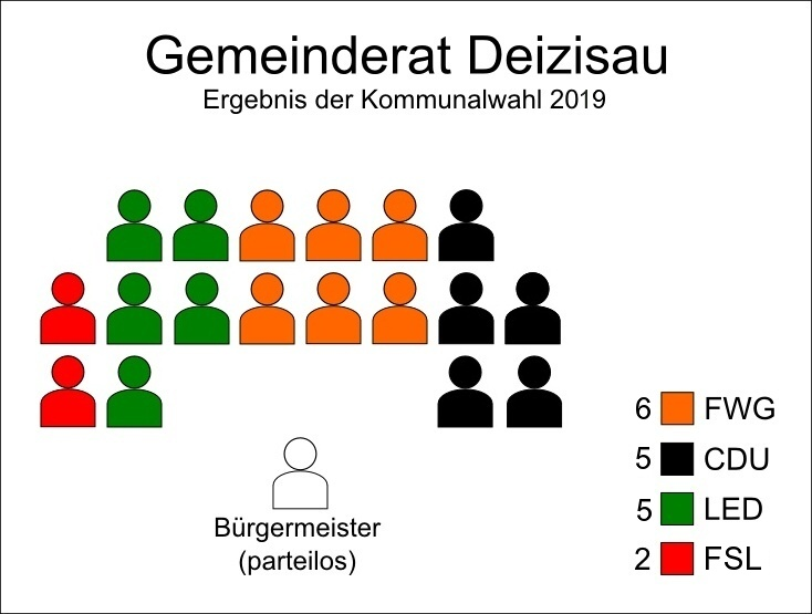 Number of seats in the council of the town Deizisau (Baden-Württemberg, Germany) after the municipal election 2019